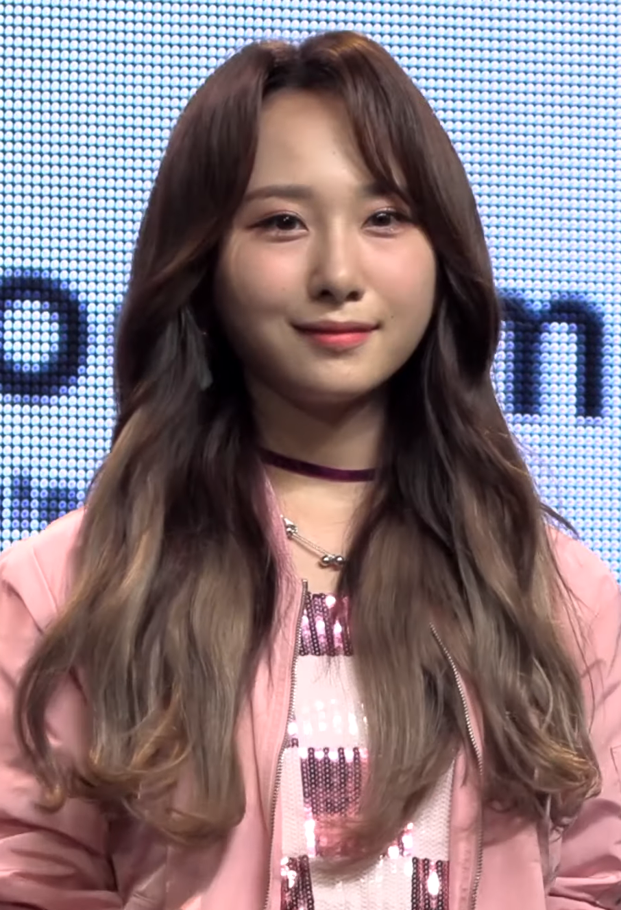 Juri at Rocket Punch Debut Showcase on August 7, 2019